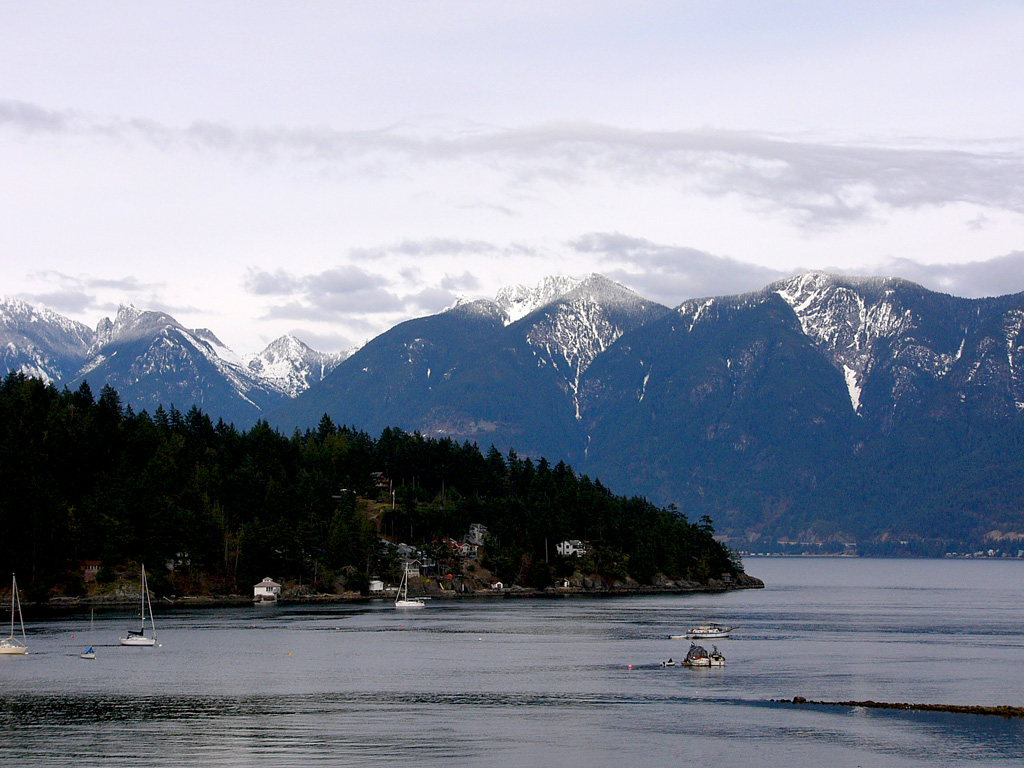 Bowen_Island